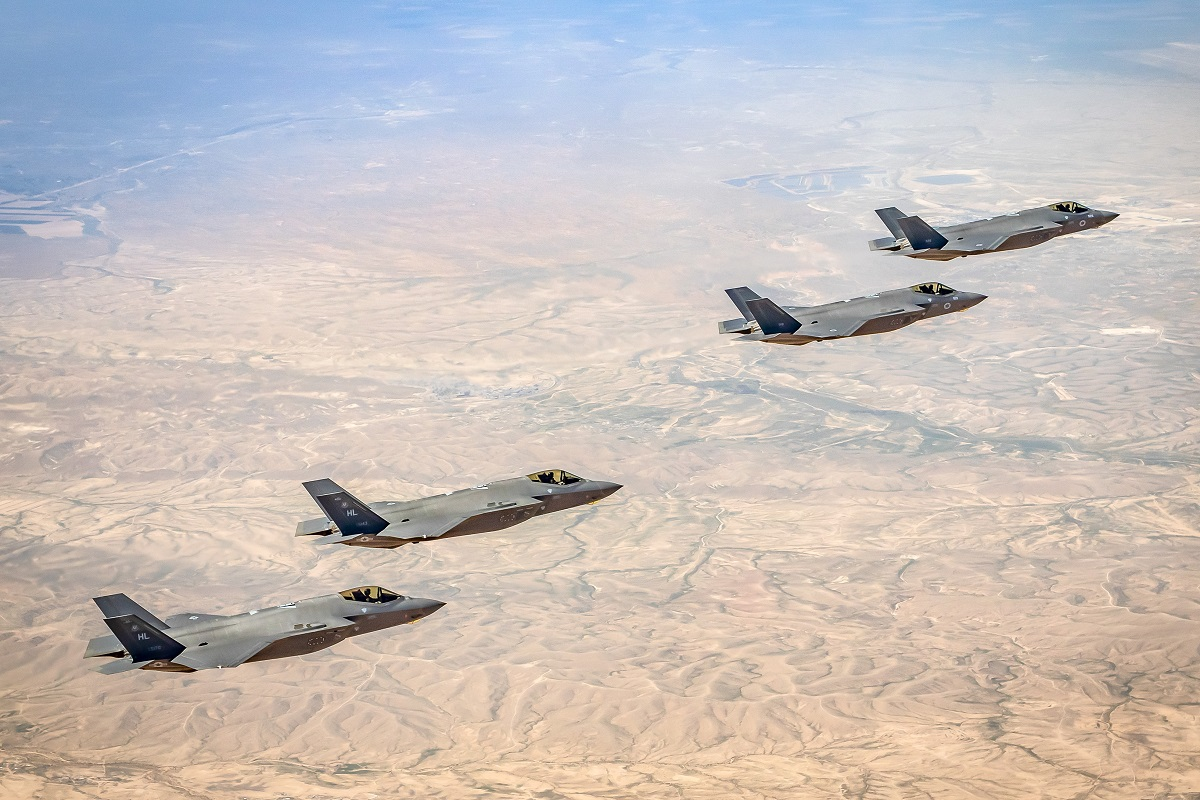 Enduring Lightning Exercises, March 2020.